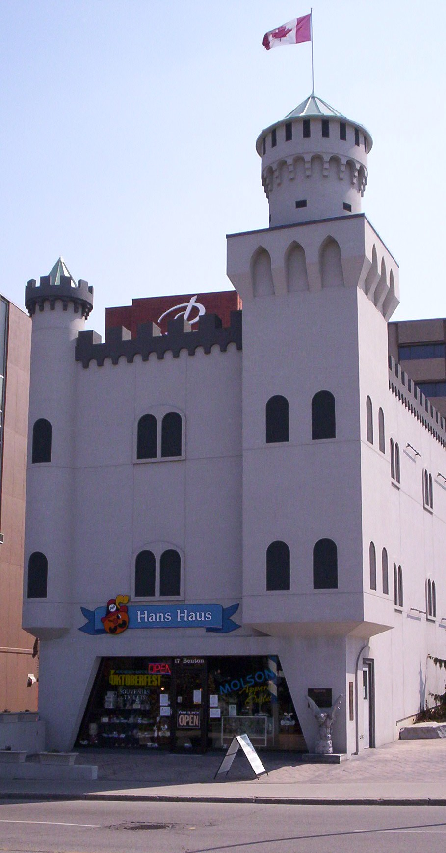 'Hans Haus', gift shop and administrative building for the Kitchener-Waterloo Oktoberfest organization. Located at Benton Street and Hall's Lane, Kitchener, Ontario.